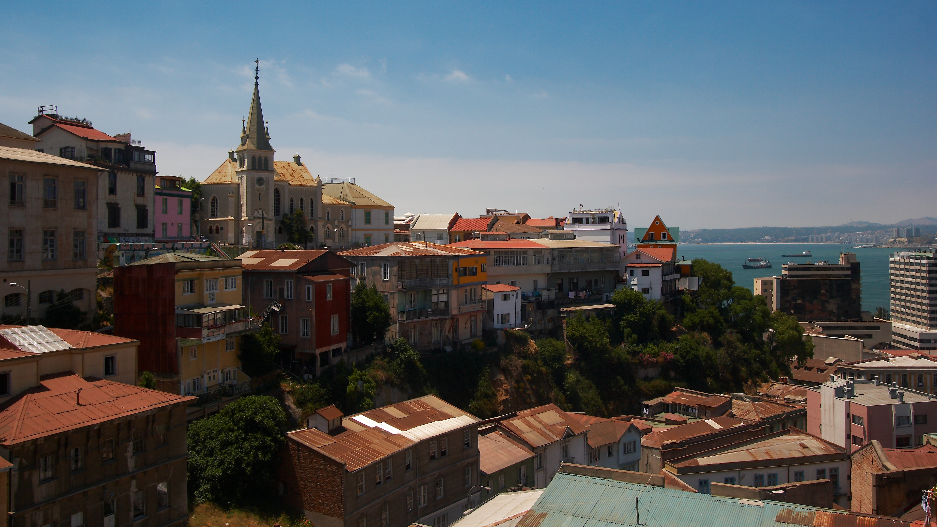 Valparaíso, Chile.